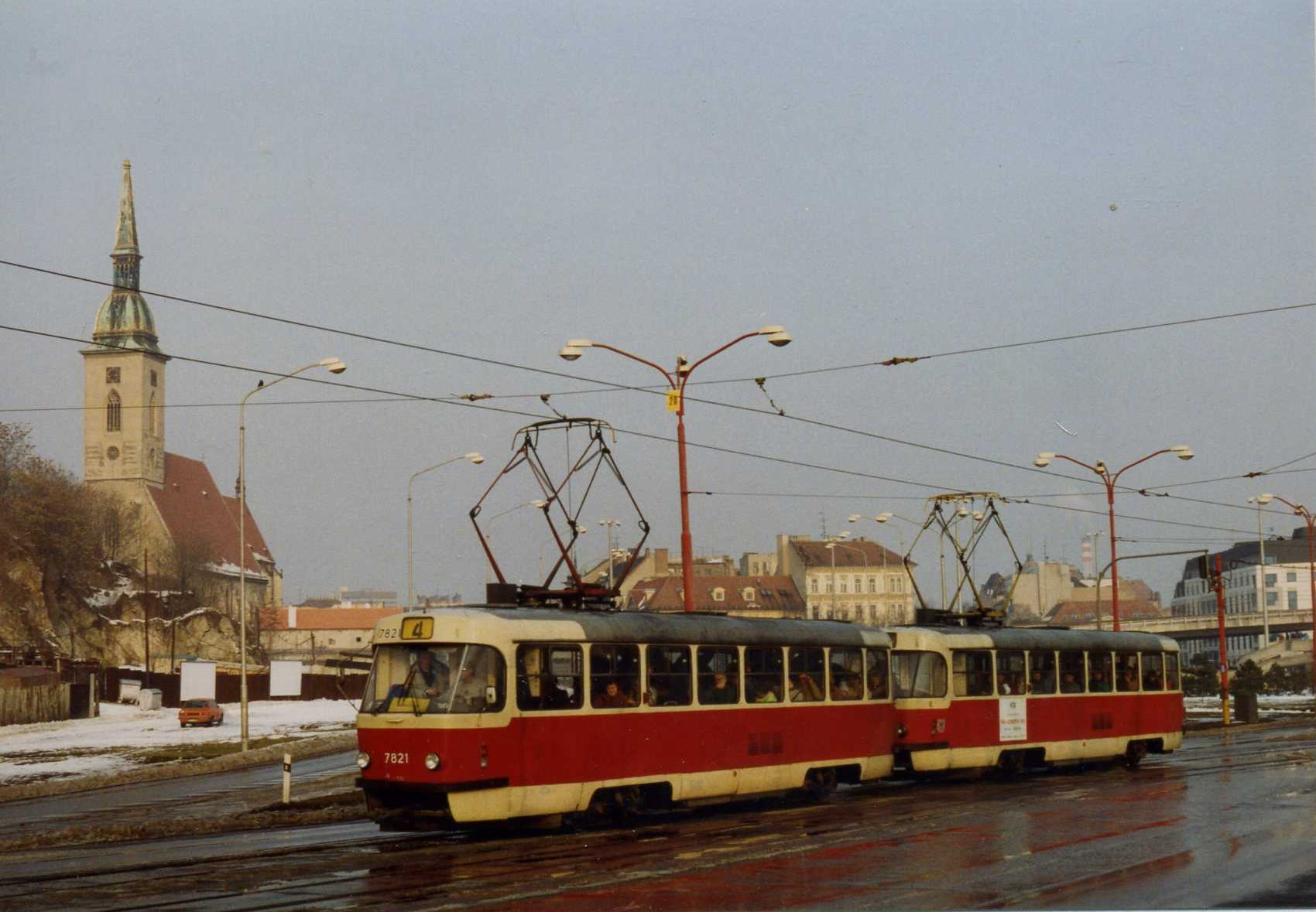 Tatra Tram 7821 in Bratislava, linka 4 March 1993